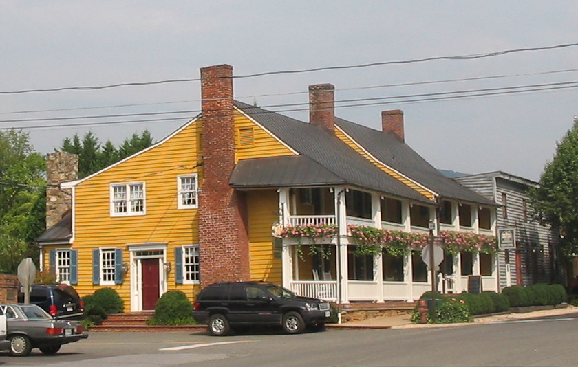 Cropped from an image taken by me for Wikipedia.